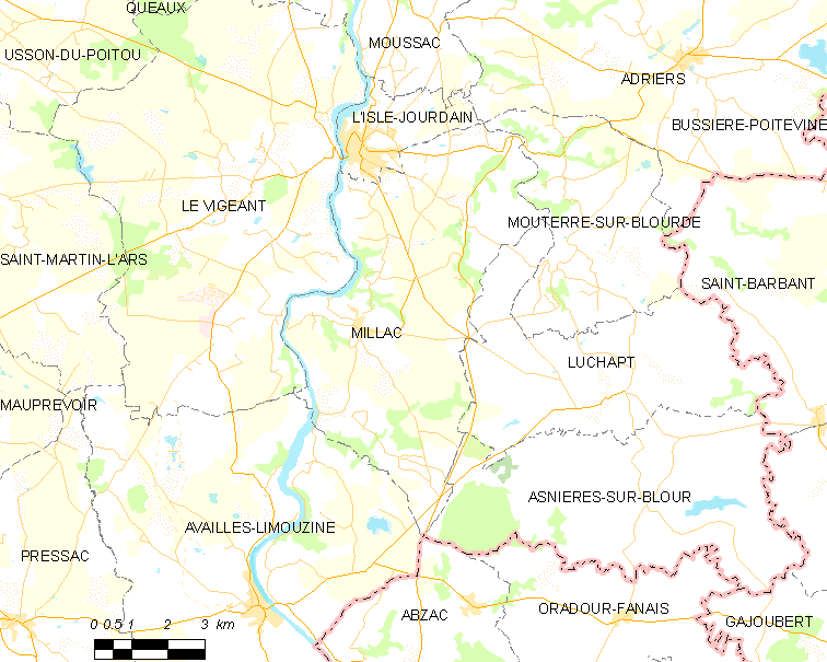 Map of French municipality Millac